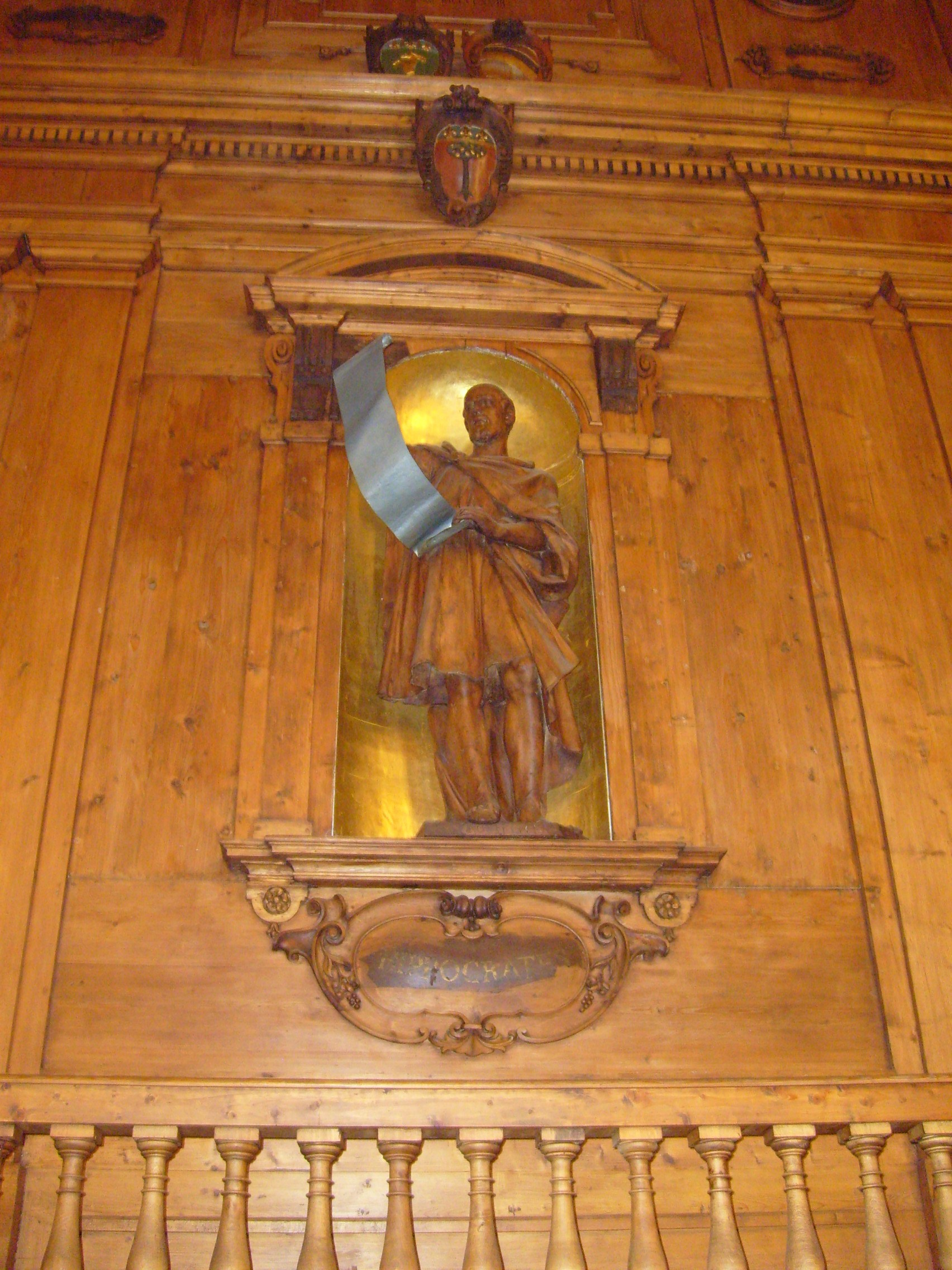 Anatomical theatre (the statue of Hippocrates), Palazzo dell’Archiginnasio, Bologna, Italy